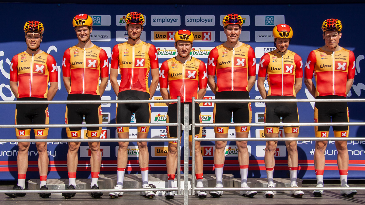 Uno-X Norwegian Development Team at the 2018 Ringerike Grand Prix. Riders in alphabetical order: Jonas Abrahamsen Tobias Foss Sondre Kristiansen Erik Nordsæter Resell Lars Saugstad Anders Skaarseth Syver Wærsted